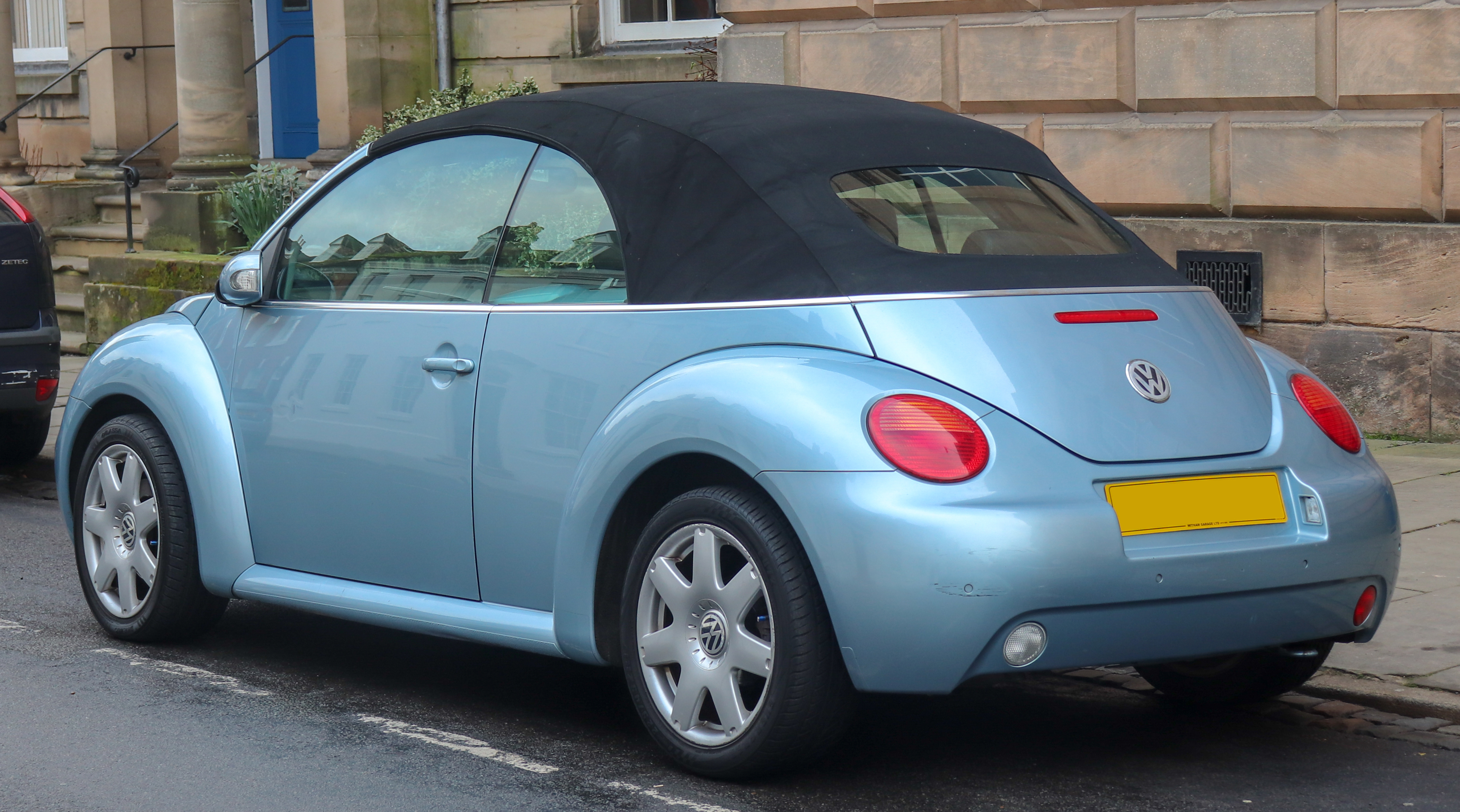 2004 Volkswagen Beetle Cabriolet Tiptronic 2.0 Rear Taken in Warwick